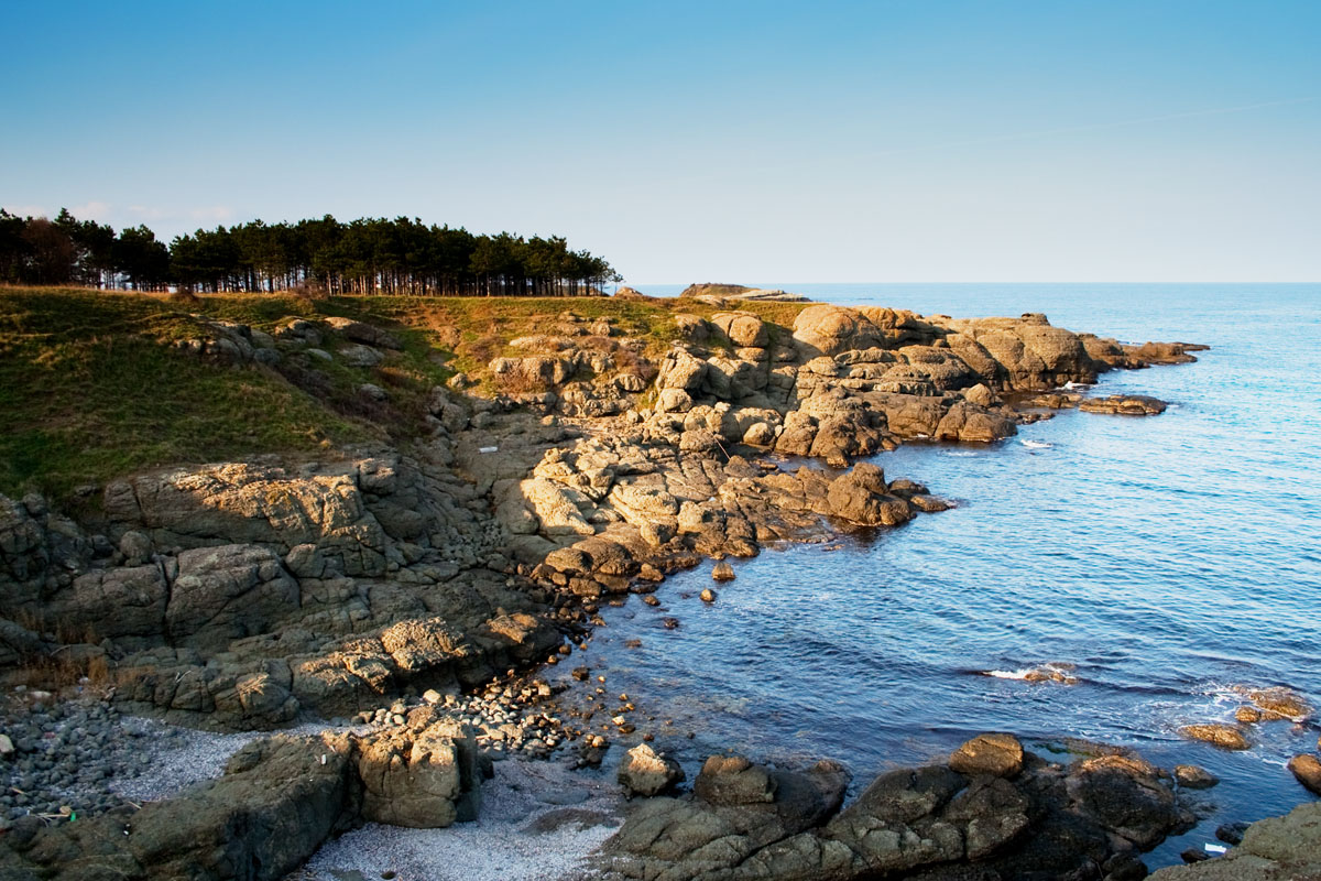 Arapya cape